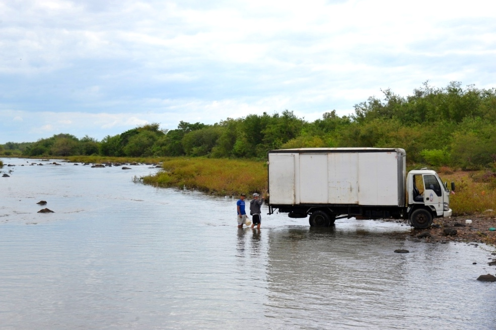 El Río Viejo en La Mojarra, El Jicaral, Nicaragua. Vista al sur desde la carretera a San Francisco Libre.